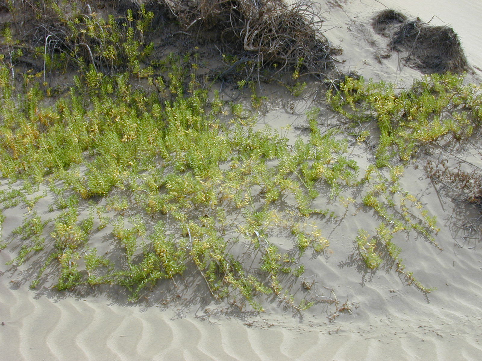 Batis maritima (habit in sand). Location: Maui, Kalepolepo